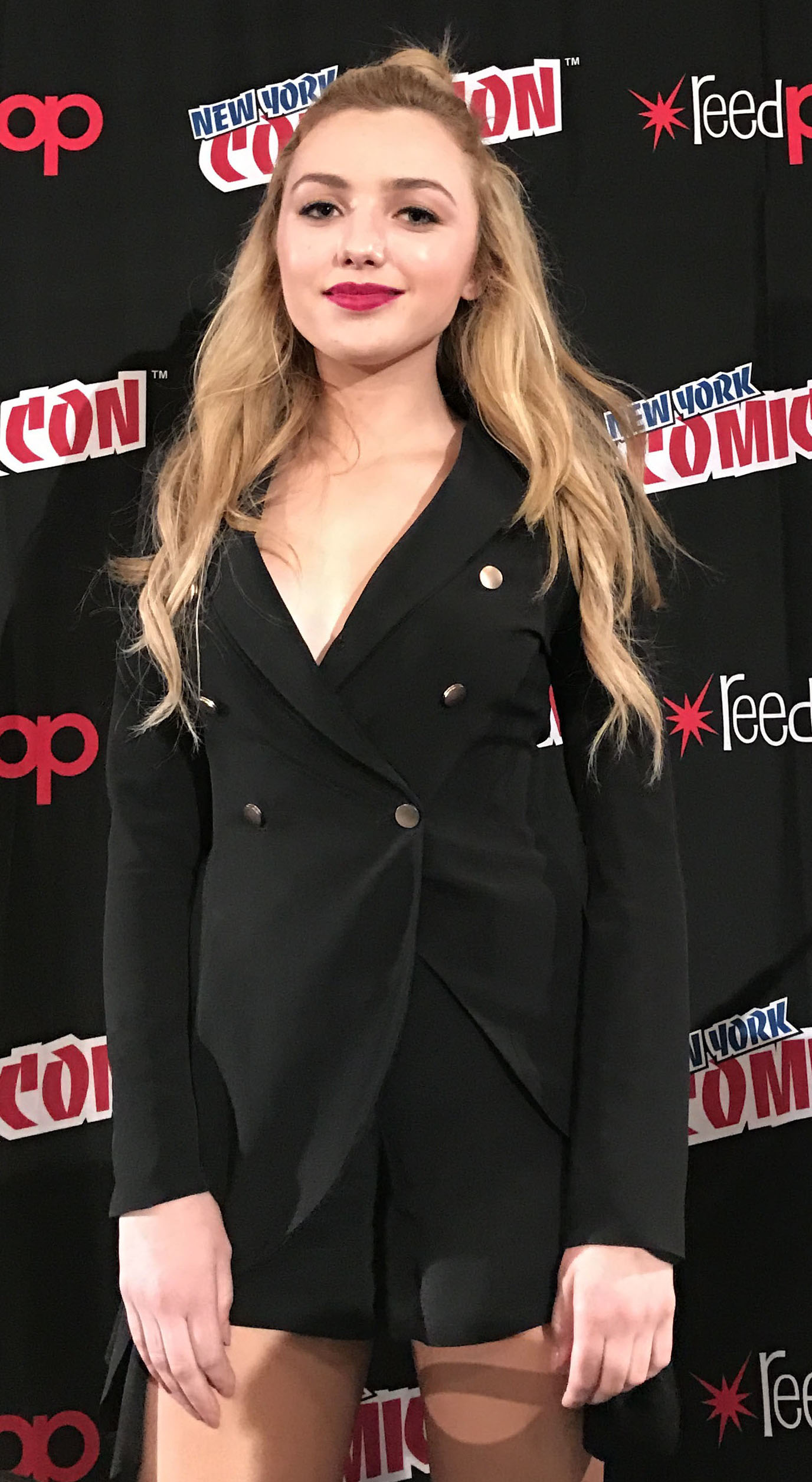 Actress Peyton List at a panel discussion devoted to the 2016 film The Thinning at the Jacob K. Javits Convention Center in Manhattan, on Saturday October 8, 2016, Day 3 of the 2016 New York Comic Con. This photo was created by Luigi Novi. It is not in the public domain, and use of this file outside of the licensing terms is a copyright violation.